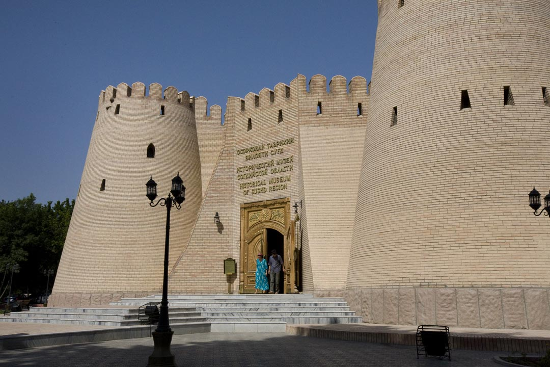 Historical museum of Sugd, Tajikstan